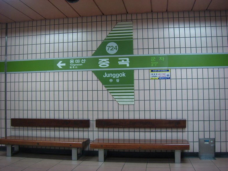 Junggok Station Commons:Category:Seoul Subway